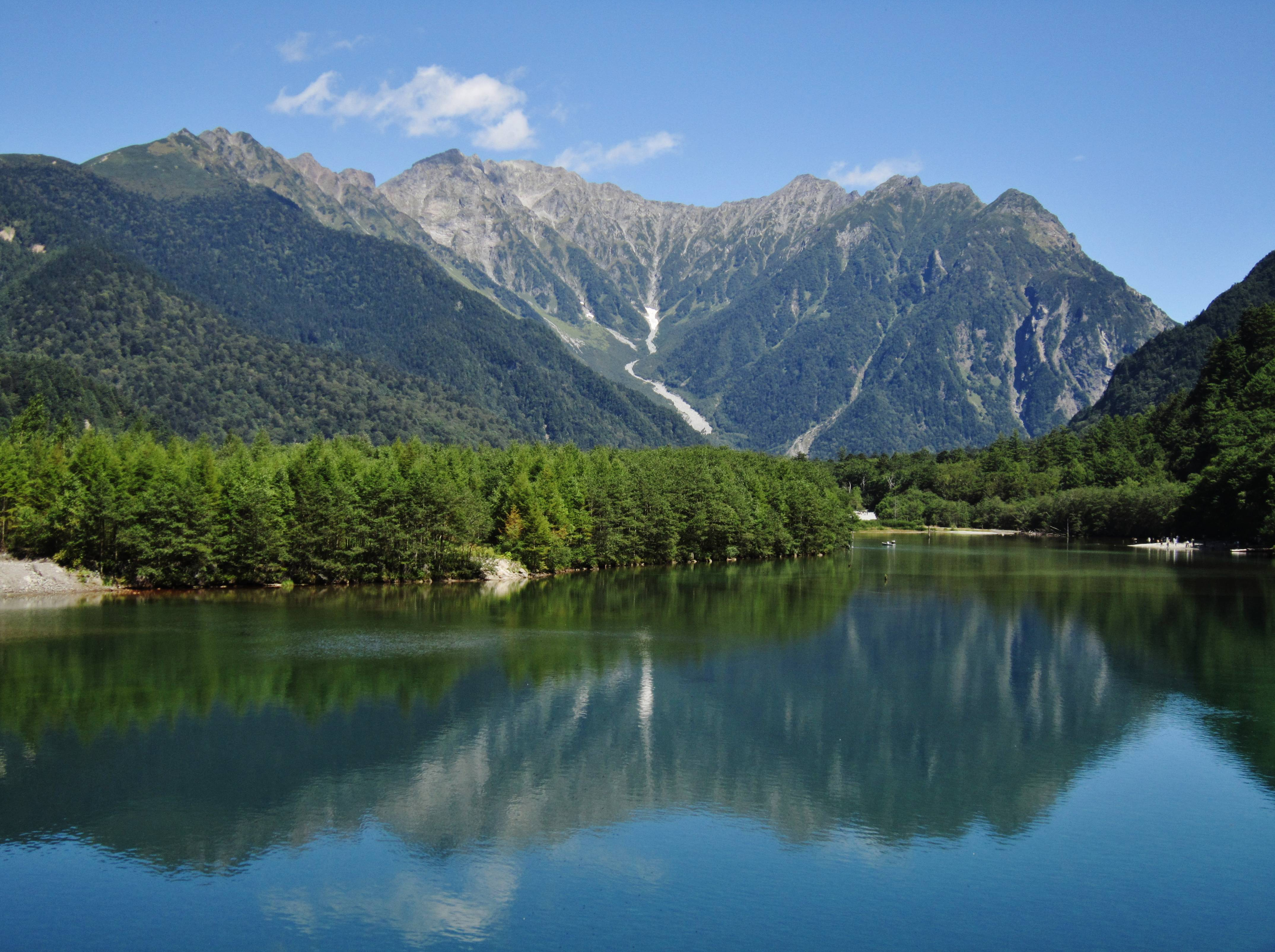 Taishō Pond.